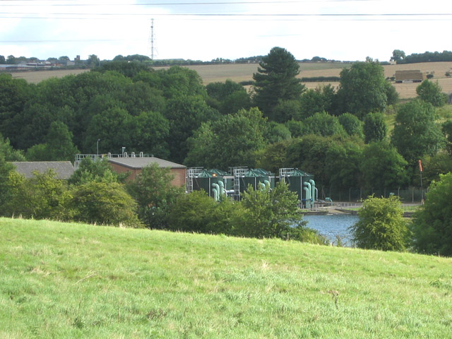 Saltersford Water Treatment Works near Grantham. At SK 926 332, the water treatment tanks and reservoir are just across the River Witham which is just out of sight at the bottom of the slope.